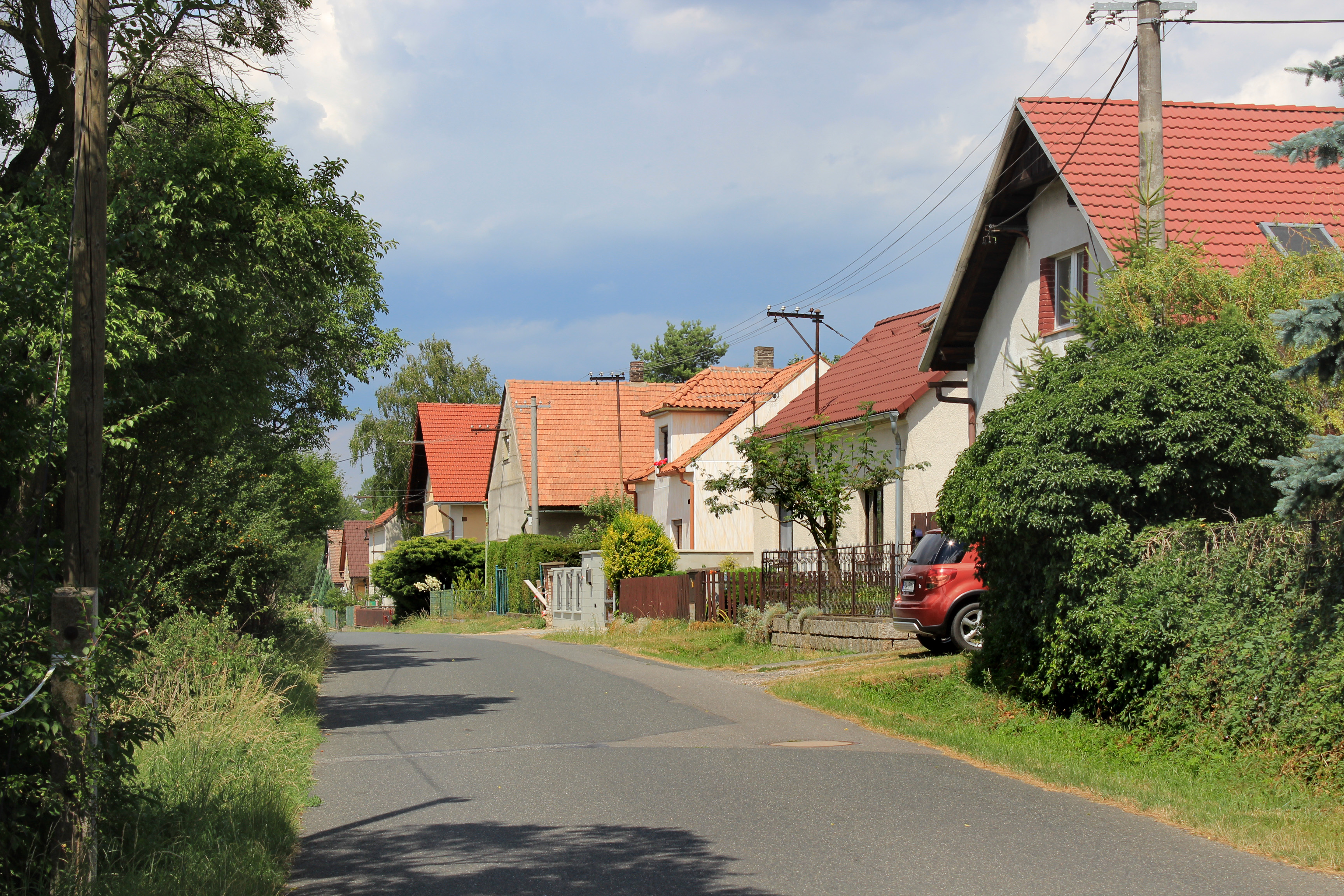 South part of Vinice, part of Vinaře, Czech Republic.